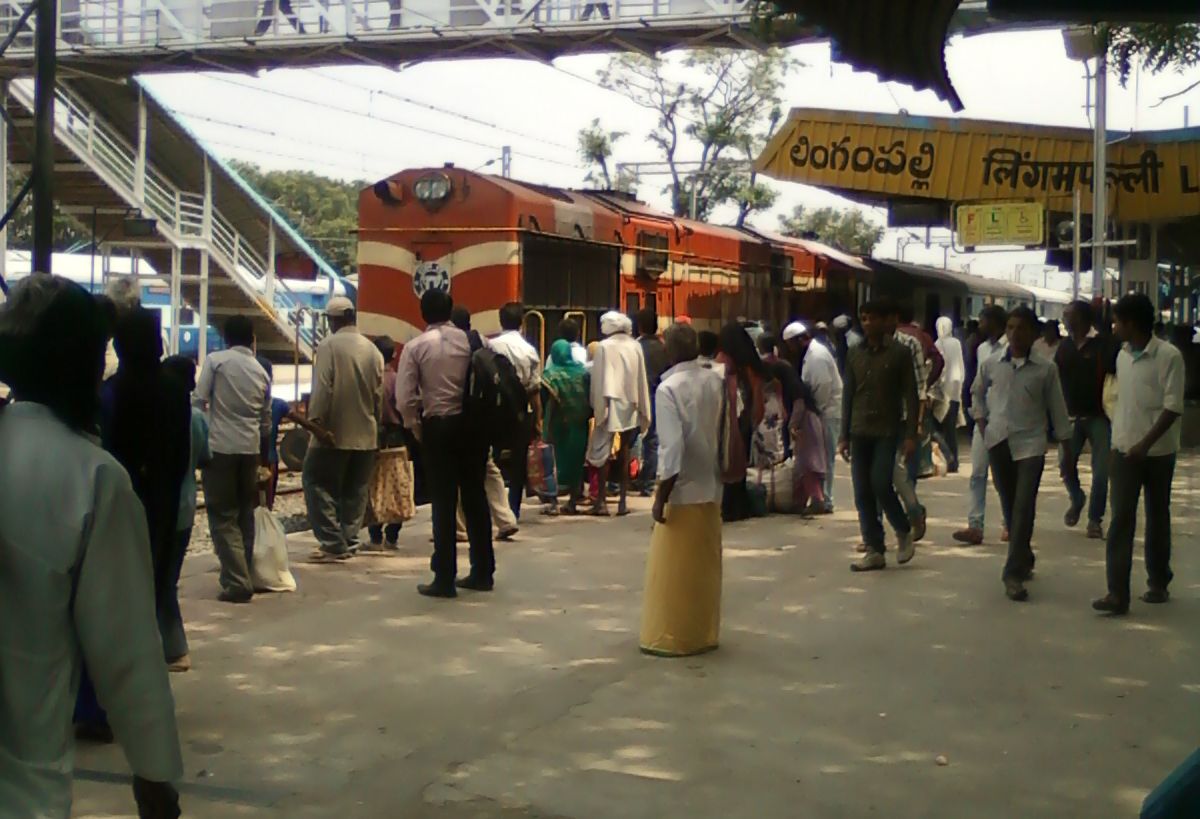 Passengers waiting for a train at Lingampally Train station, Telangana